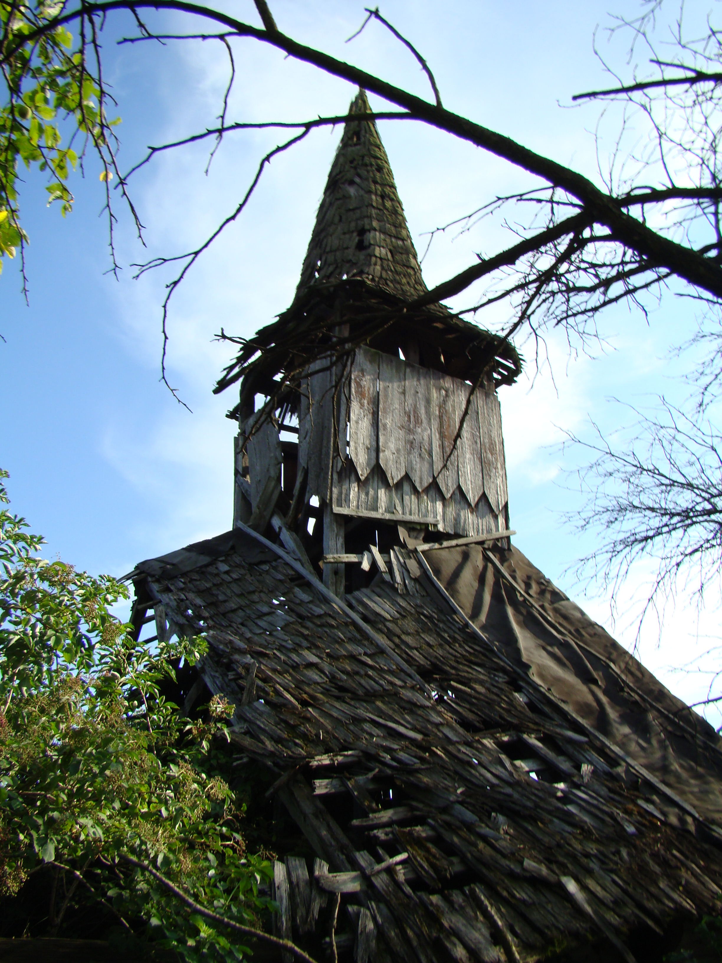 Wooden Curch in Șieu Sfântu, Bistrița-Năsăud county